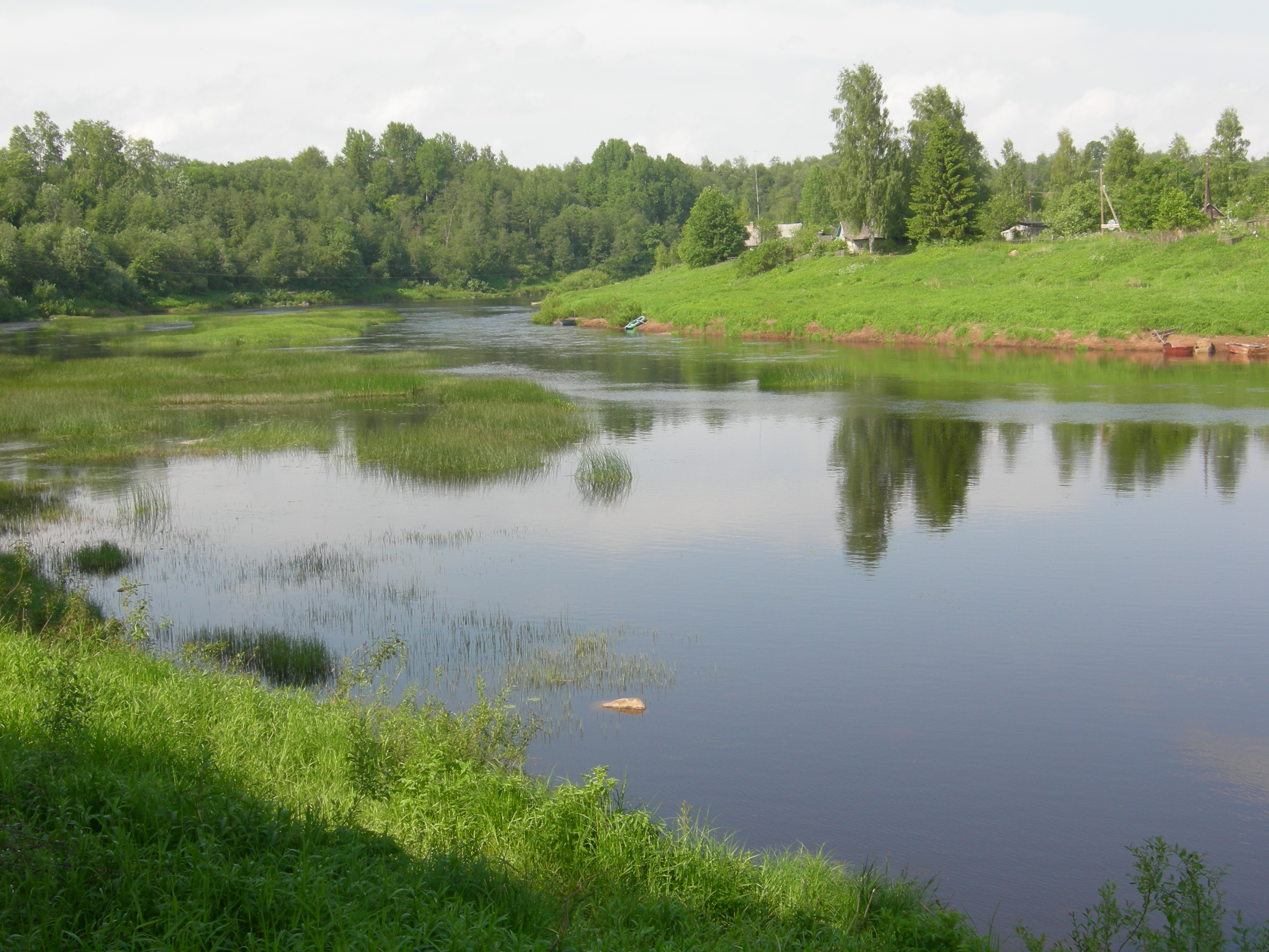 Syas River in Leningrad Oblast (N59.87034°, E32.85220°).